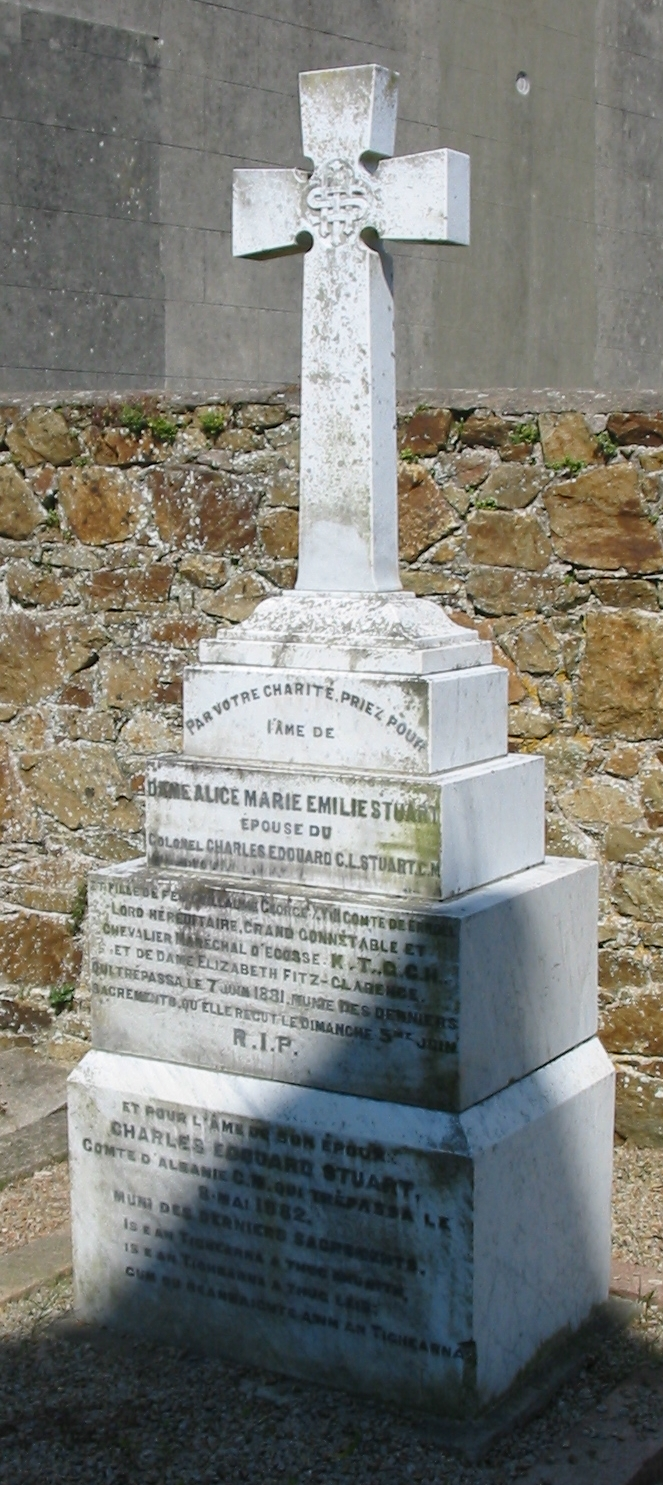 Gravestone, Jersey, 22 June 2009: Charles Edward Louis Casimir Stuart (1824–1882) married Lady Alice Hay, granddaughter of William Hay, 17th Earl of Erroll - see: John Sobieski Stuart